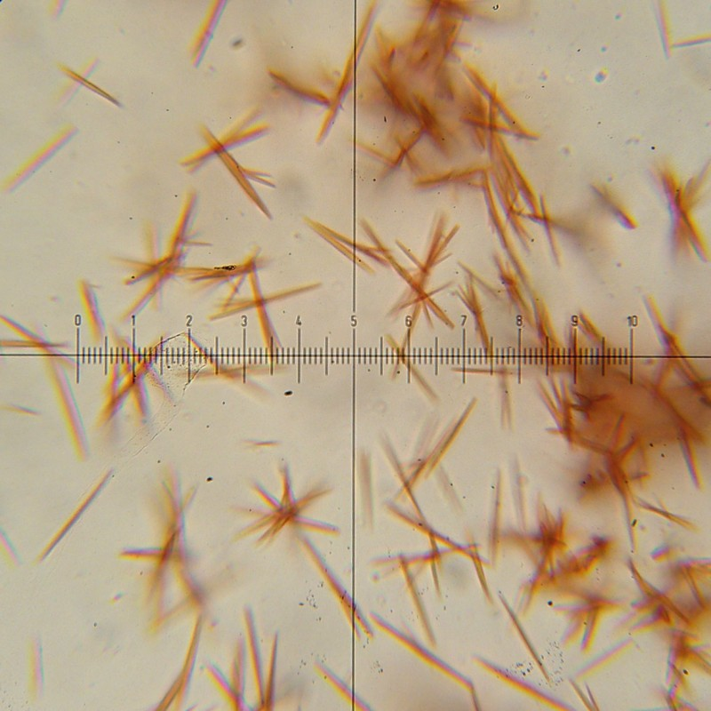 Norstictic Acid Crystals Scientific Name: Aspicilia cinerea (L.) Korber Common Name: Cinder Lichen Certainty: positive (notes) Location: Canadian Rockies; Wells Gray Provincial Park; Edgewood Blue Date: 2008-04-15 This is what happens if you add KOH to an apothecial section while watching under the compound microscope. Out of seemingly nowhere all these cool red radiating needle-like crystals form. This is a reaction of the lichen substance norstictic acid with KOH. Macroscopically, if you put a drop of KOH on the nice ashy-white surface, it also turns a very pleasing bright red. Always amusing, no matter how many times you see it! Apparently, the shape of the crystal is diagnostic of the type of acid present. They will also show up nicely under cross-polarized light, but I'm not set up to get good photos of that yet.